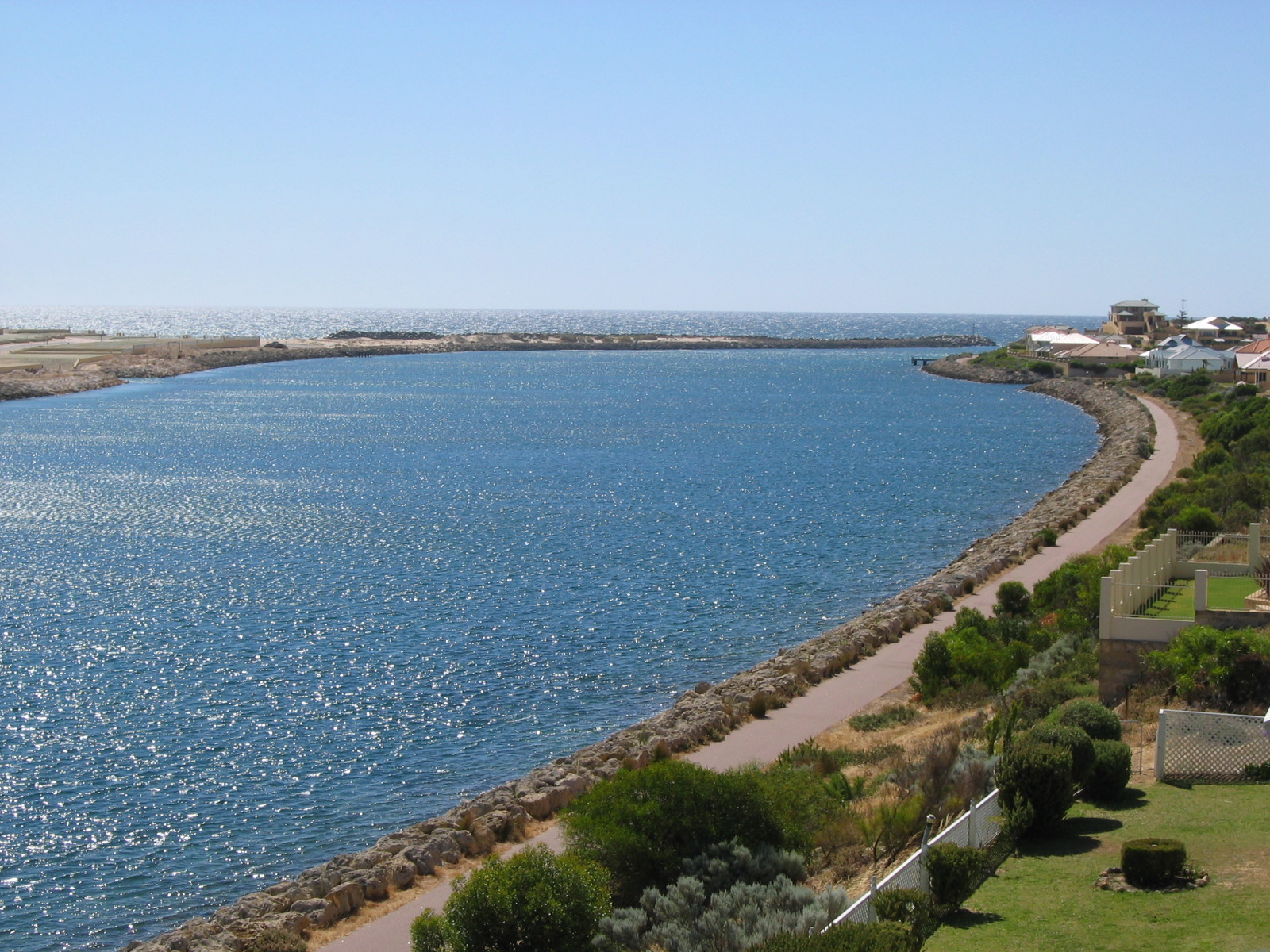 Dawesville Channel south of Mandurah, Western Australia showing the opening to the Indian Ocean. (Pic 1 of 2)